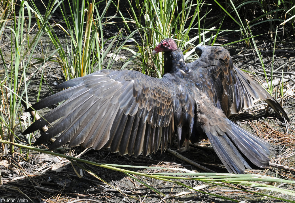 Turkey Vulture (Cathartes aura)